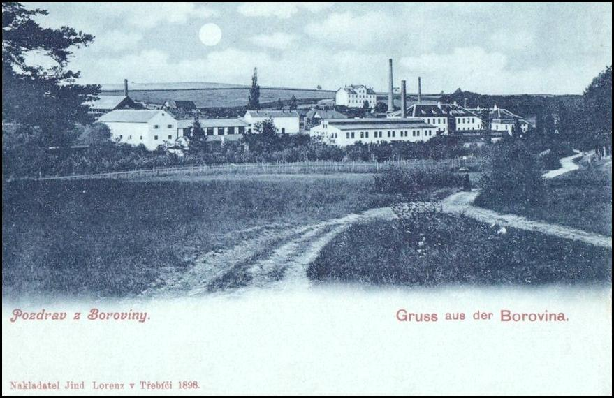 View of Factories in Borovina in 1898 in Třebíč, Třebíč District.